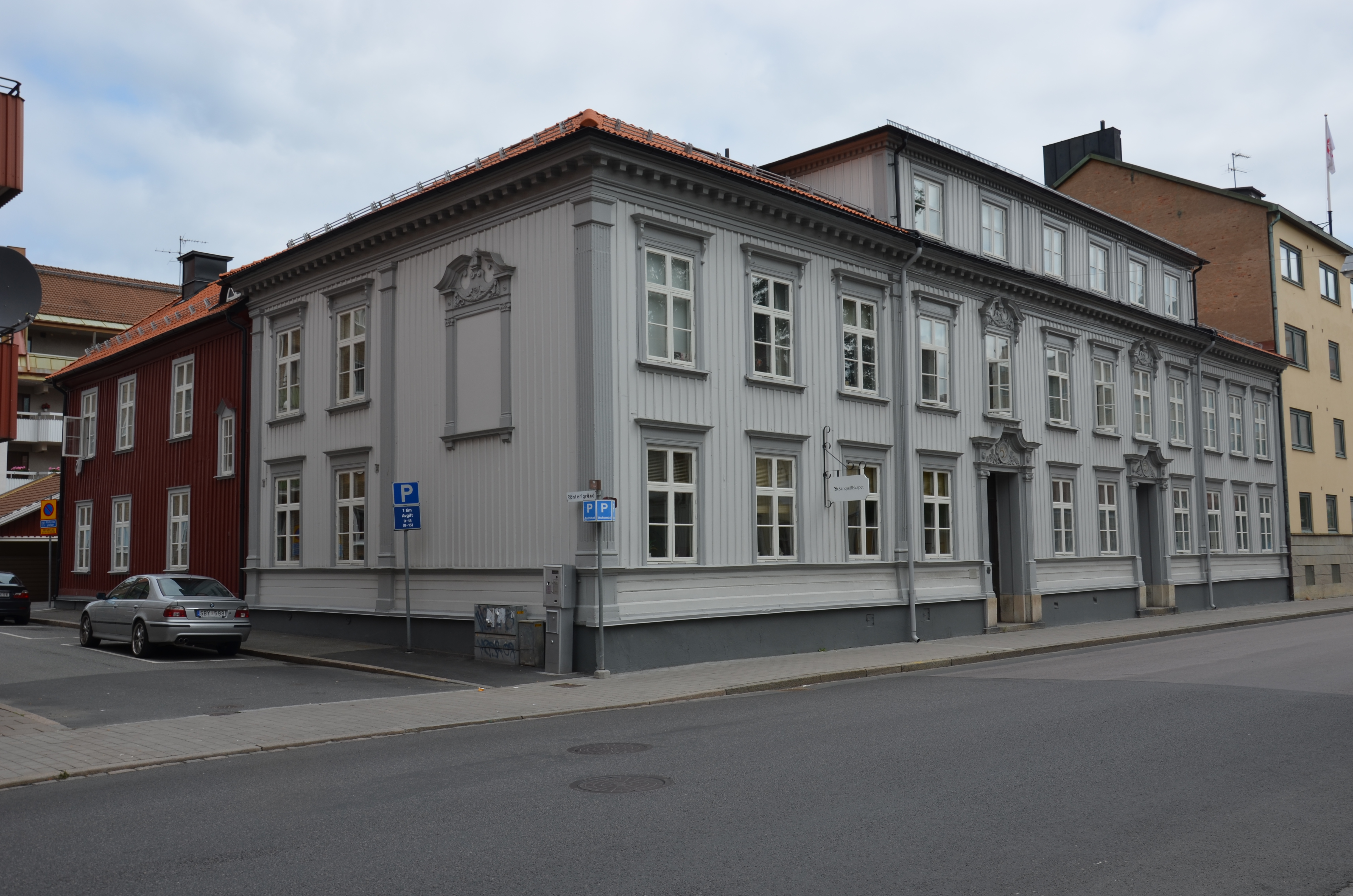 Gamla länsresidenset i Jönköping, Östra Storgatan 59, uppfört efter 1790 RAÄ BBR 21300000012570